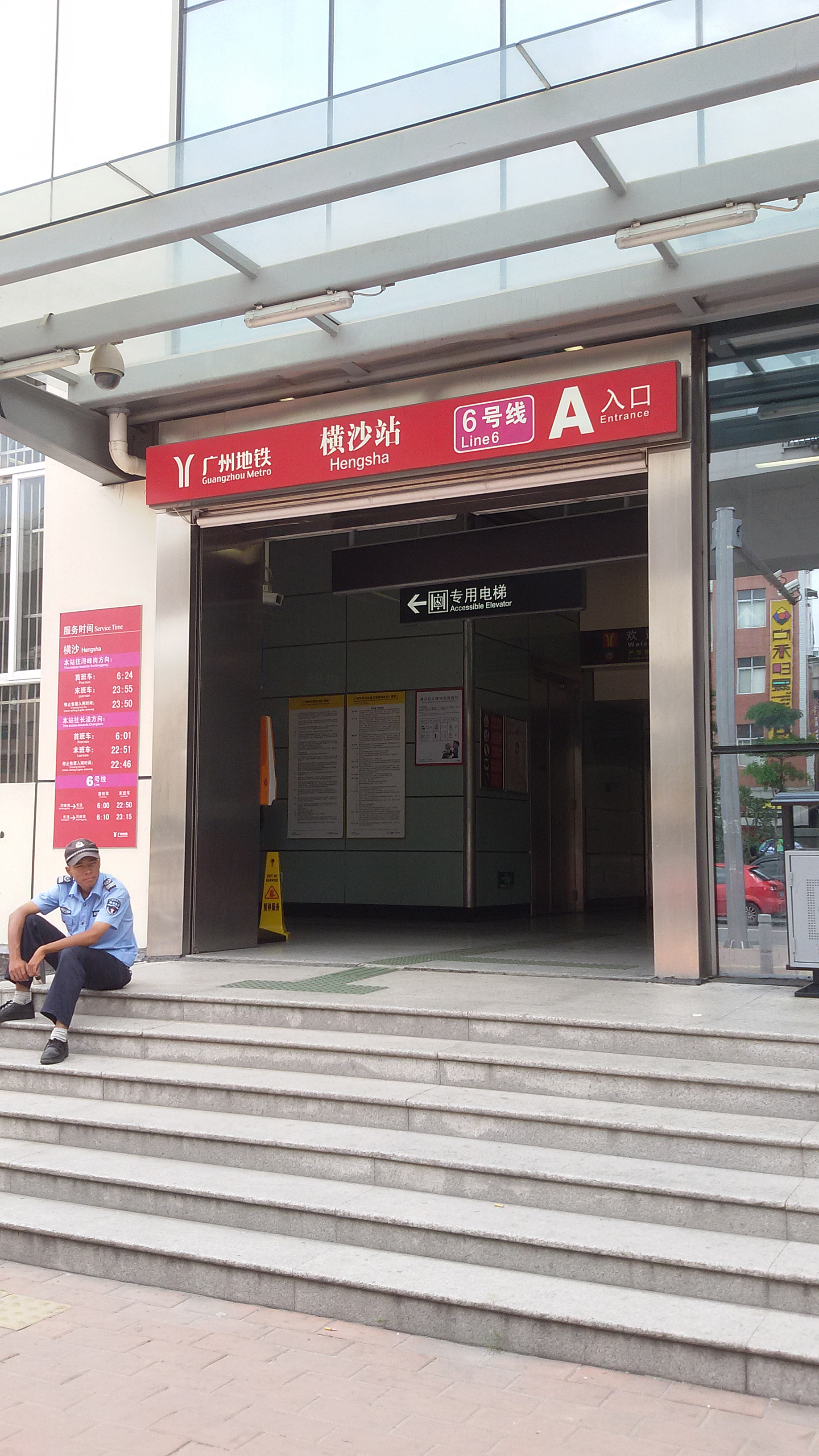 Exit A for Hengsha Station, Guangzhou Metro. 粵語: 廣州地鐵，橫沙站嘅A出入口。